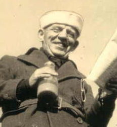 Associated Press photo of Alvin "Shipwreck" Kelly (1893-1952) sitting on a flagpole in College Park, Md., in 1942